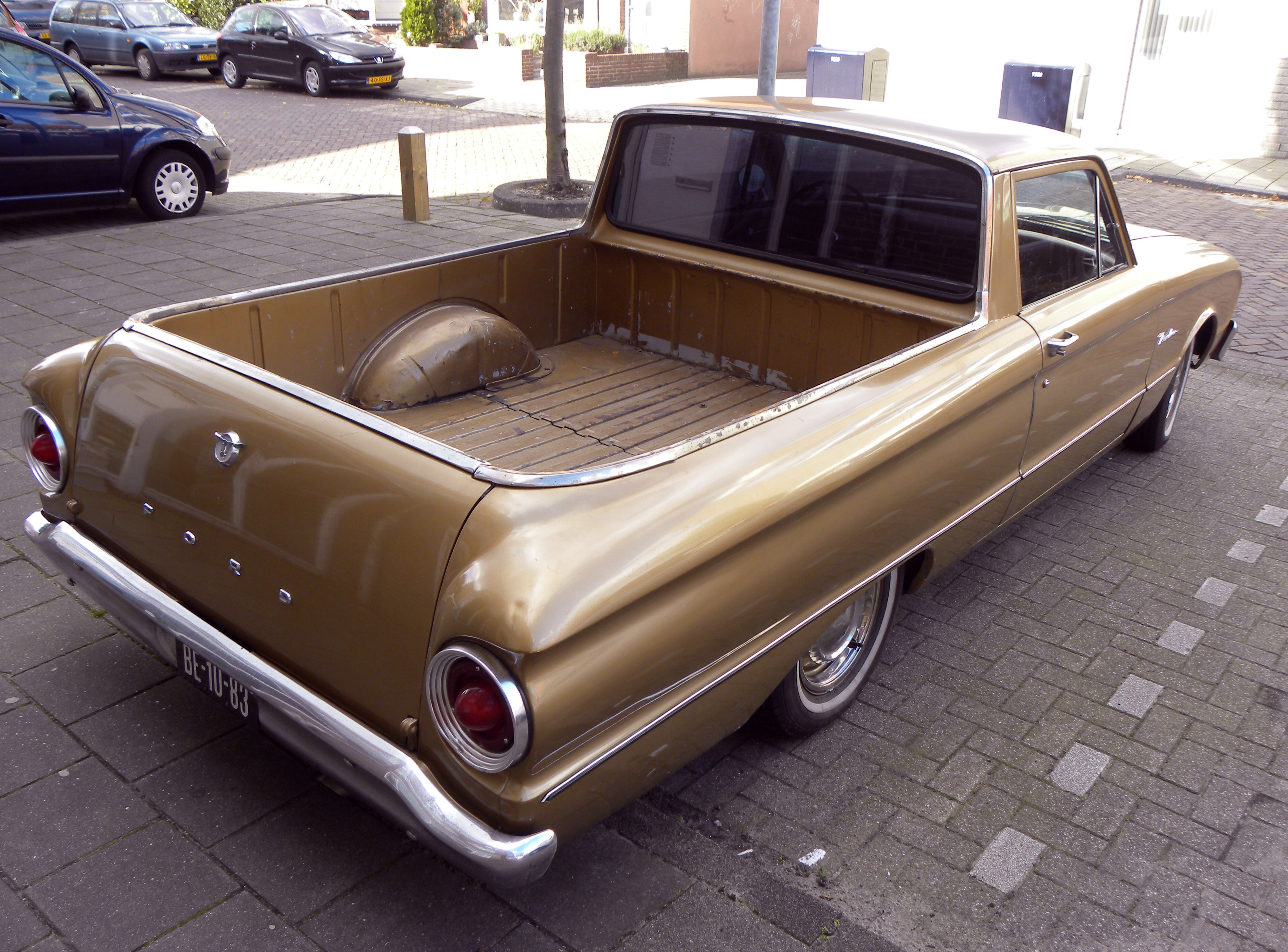 Ford Ranchero 1960-65